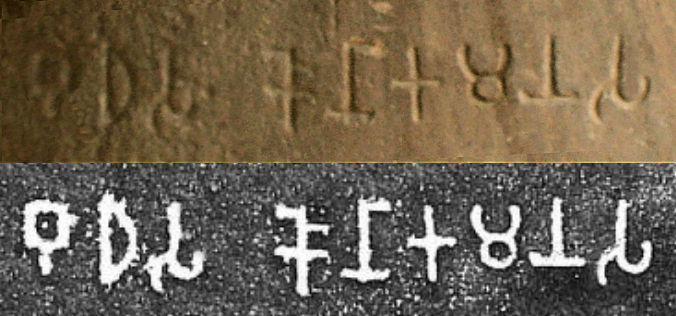 Nigali Sagar Ashokan inscription Budhasa Konaakamanasa with rubbing